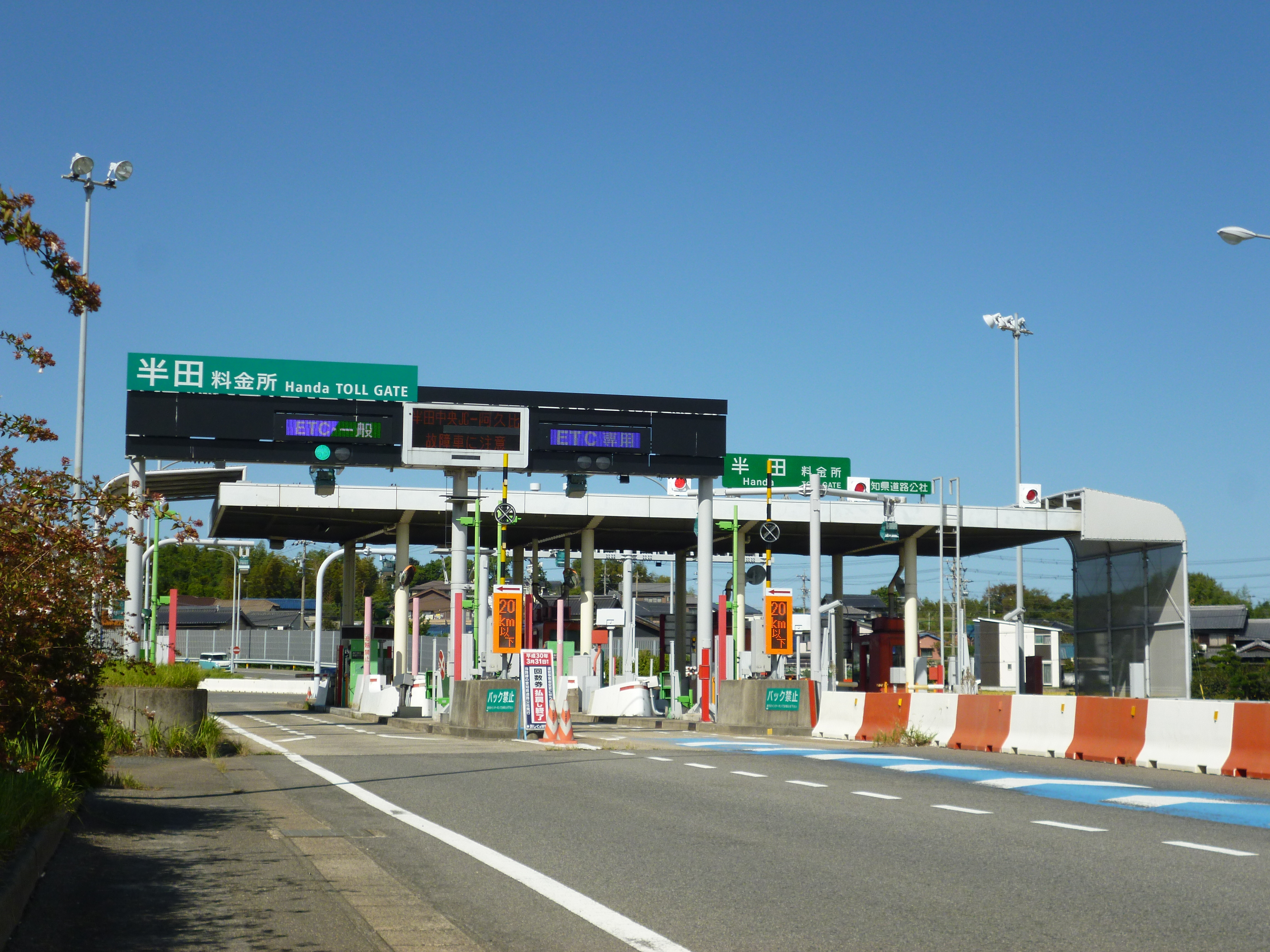 Handa Tollgate of Chitahantō Road and Minamichita Road in Handa, Aichi.